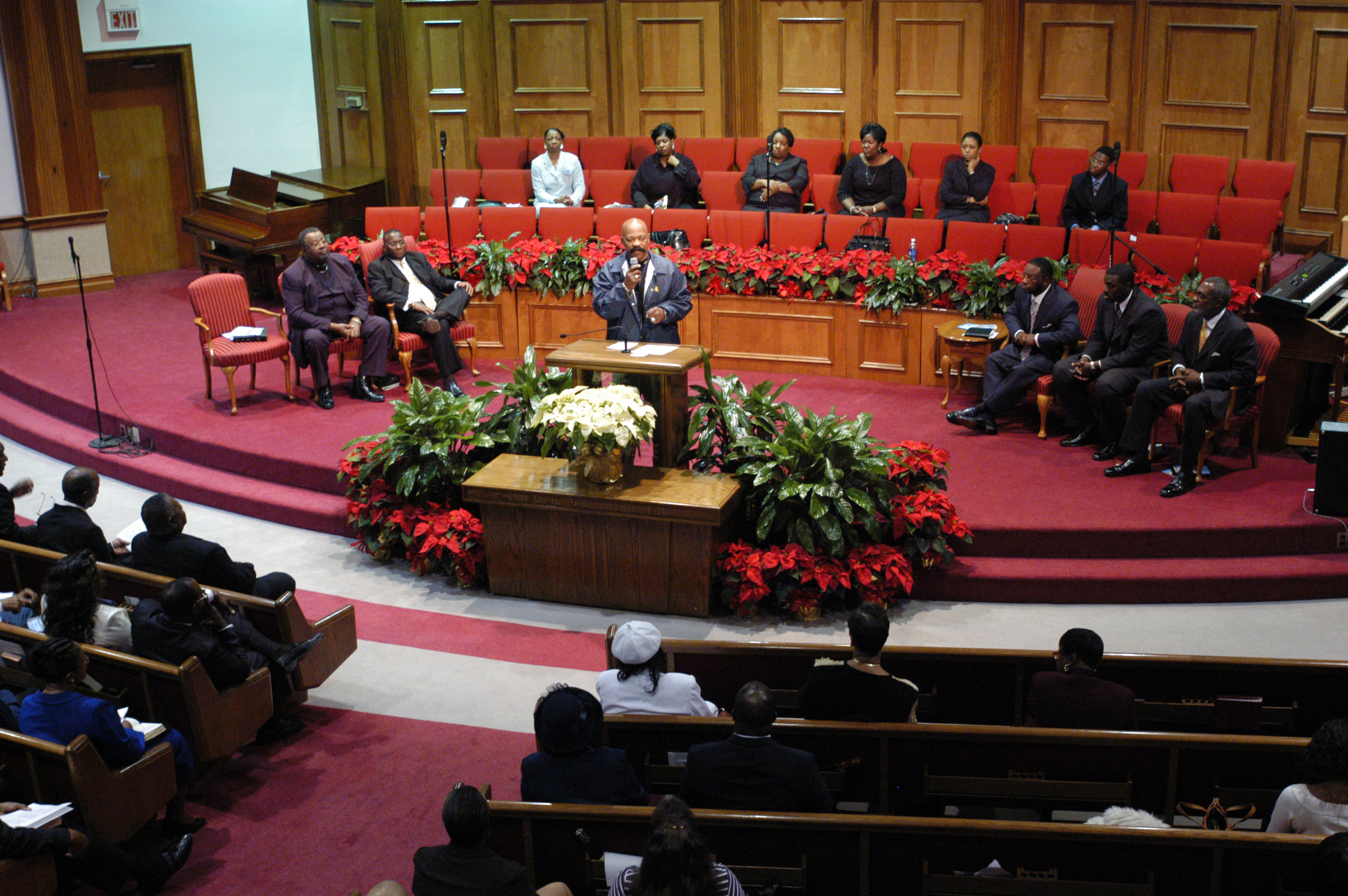 Pensacola, FL, December 5, 2004 -- Community Relations Officer Ben Dew (center at pulpit) speaks to the members of Zion Hope Primitive Baptist Church about volunteering to help residents affected by Hurricane Ivan fill out the necessary disaster applications. FEMA Photo/Mark Wolfe